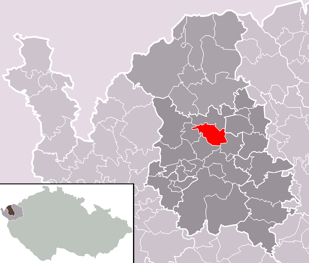 Location of Lomnice municipality within Sokolov District and administrative area of Sokolov as a Municipality with Extended Competence.